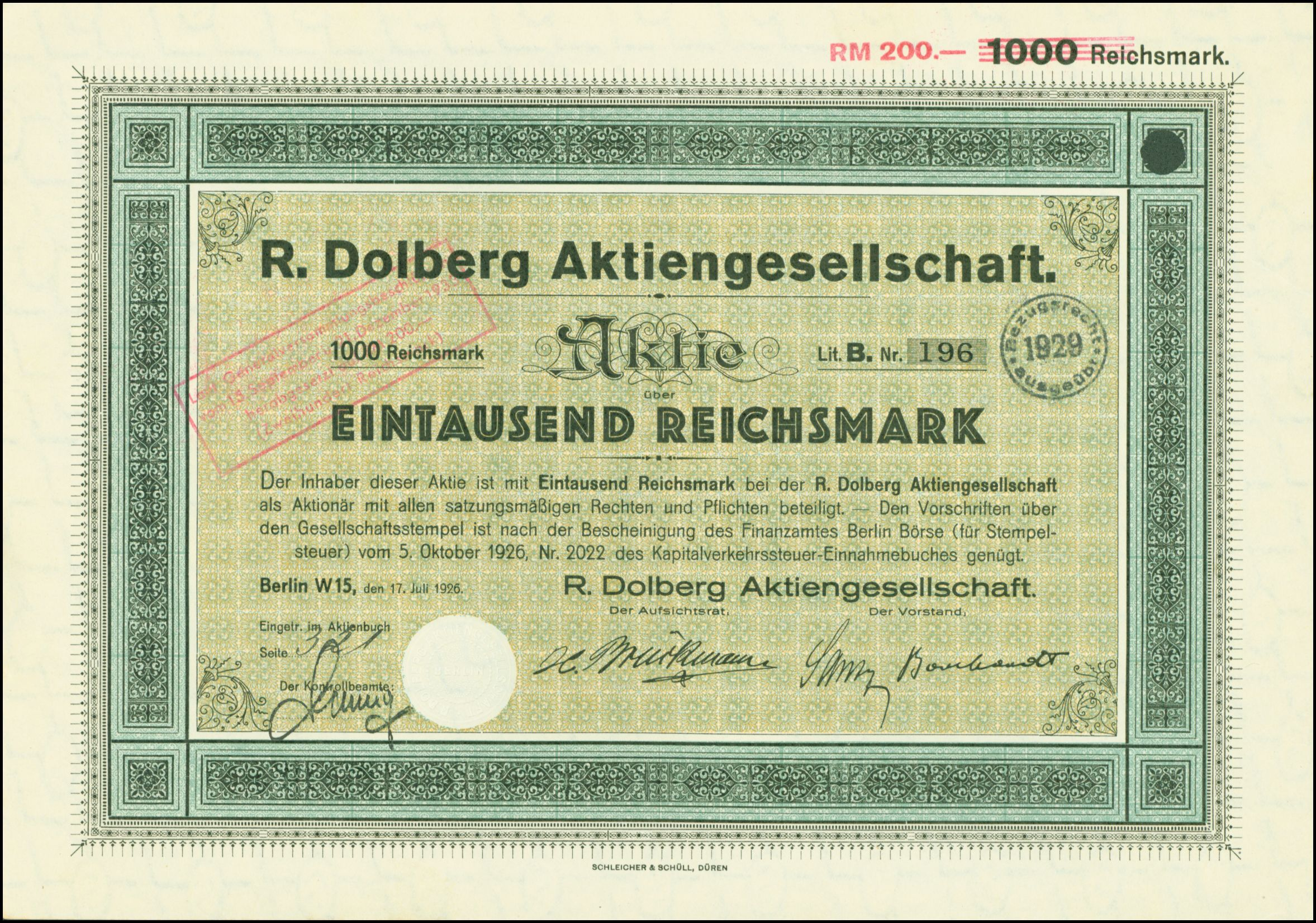 Share of the R. Dolberg AG, issued 17. July 1926